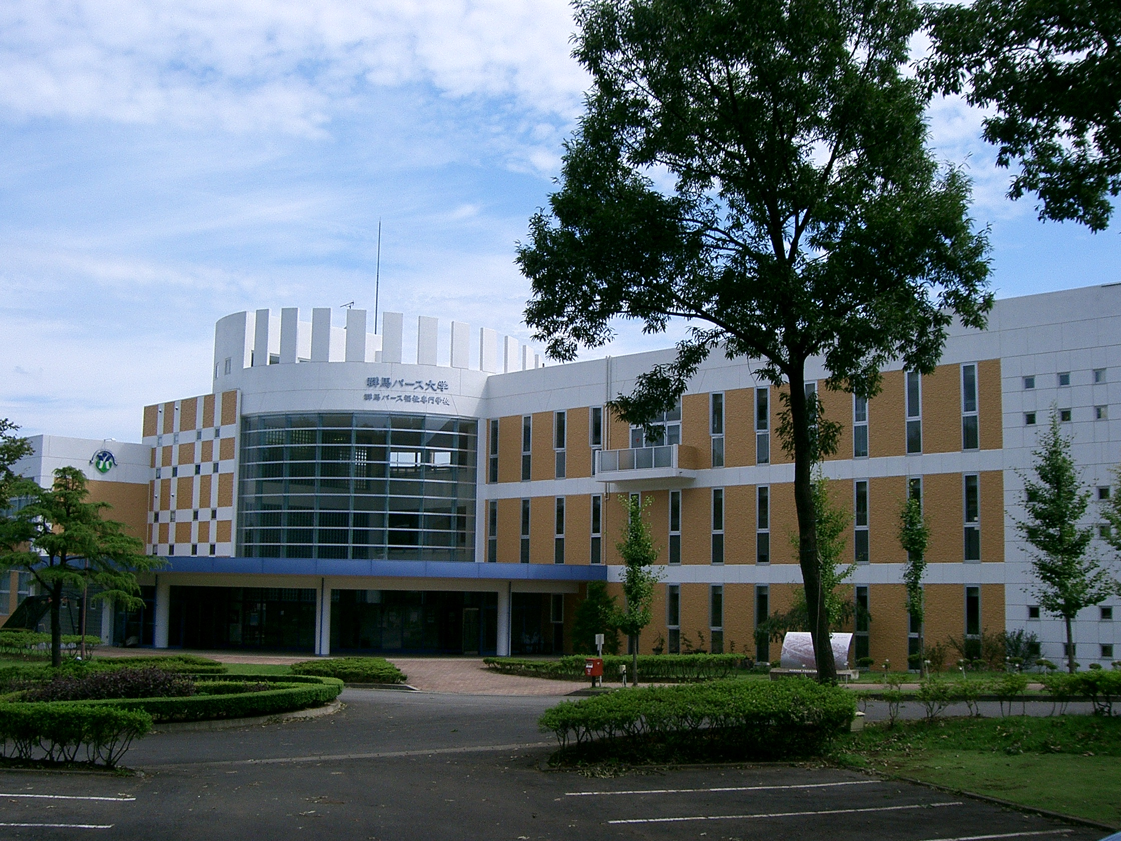 Gunma Paz Proffecional Care Workers Training College ; Takayama campus